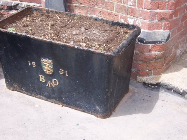 Ammunition Box - Spit Sand Fort Not quite sure whether this was actually used for gun powder or some such. The letters BO stand for Board of Ordnance. One of many Victorian relics in this fort, one of Palmerston's Follies.